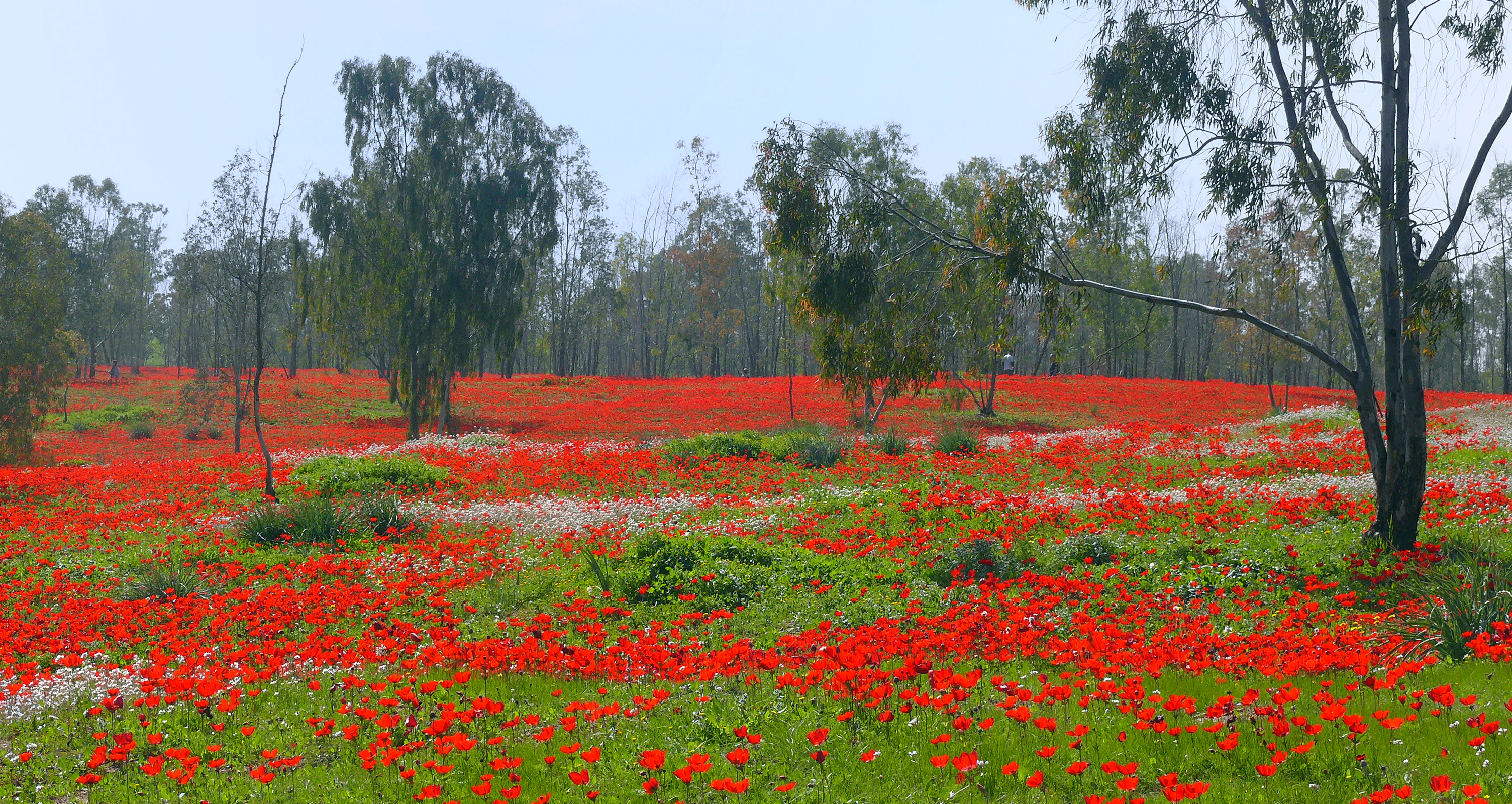 Red carpet of Anemone coronaria flowers in Shokeda forest, Israel